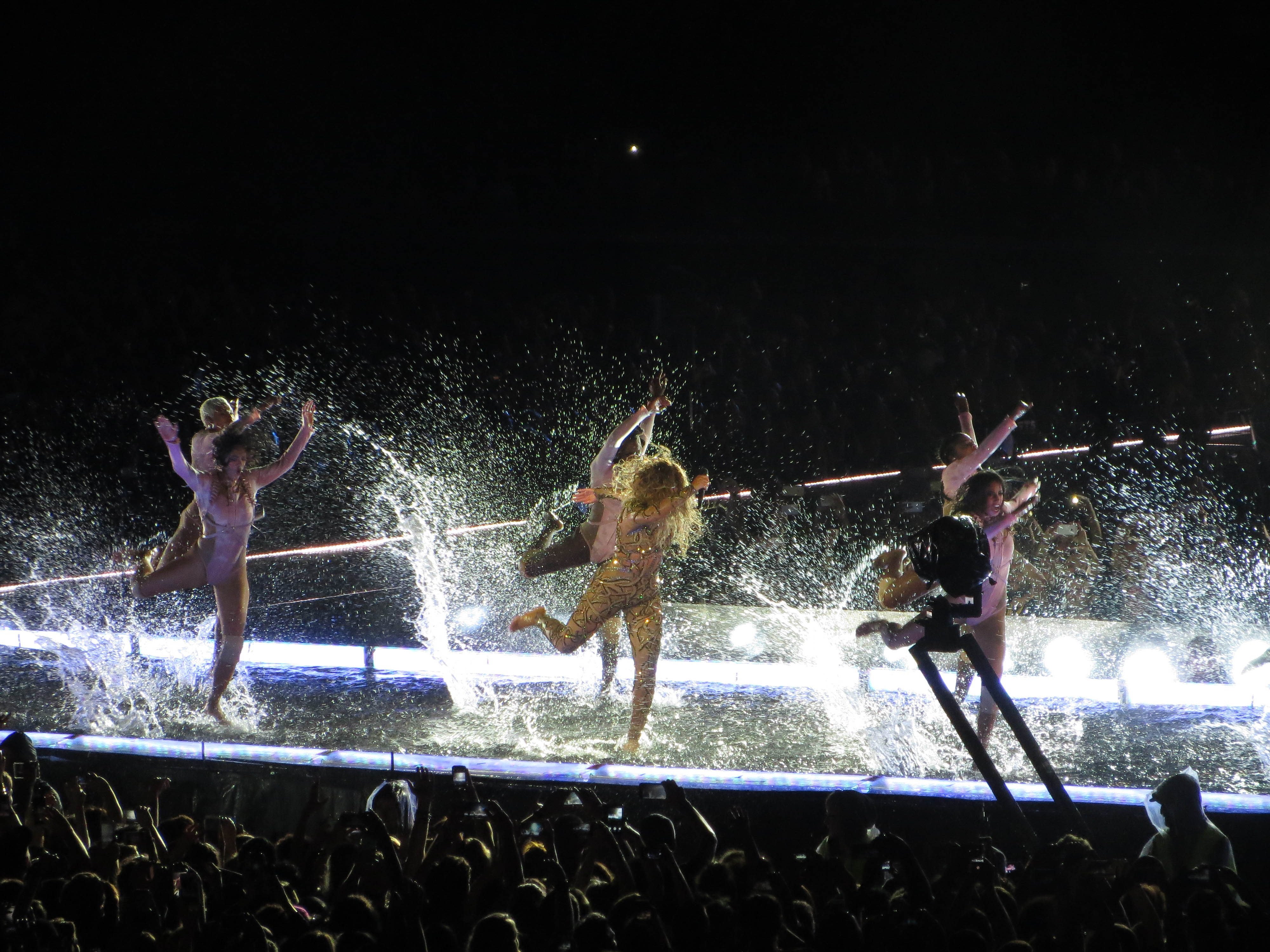 Beyoncé performing during The Formation World Tour in Brussels, Belgium, on July 31, 2016.